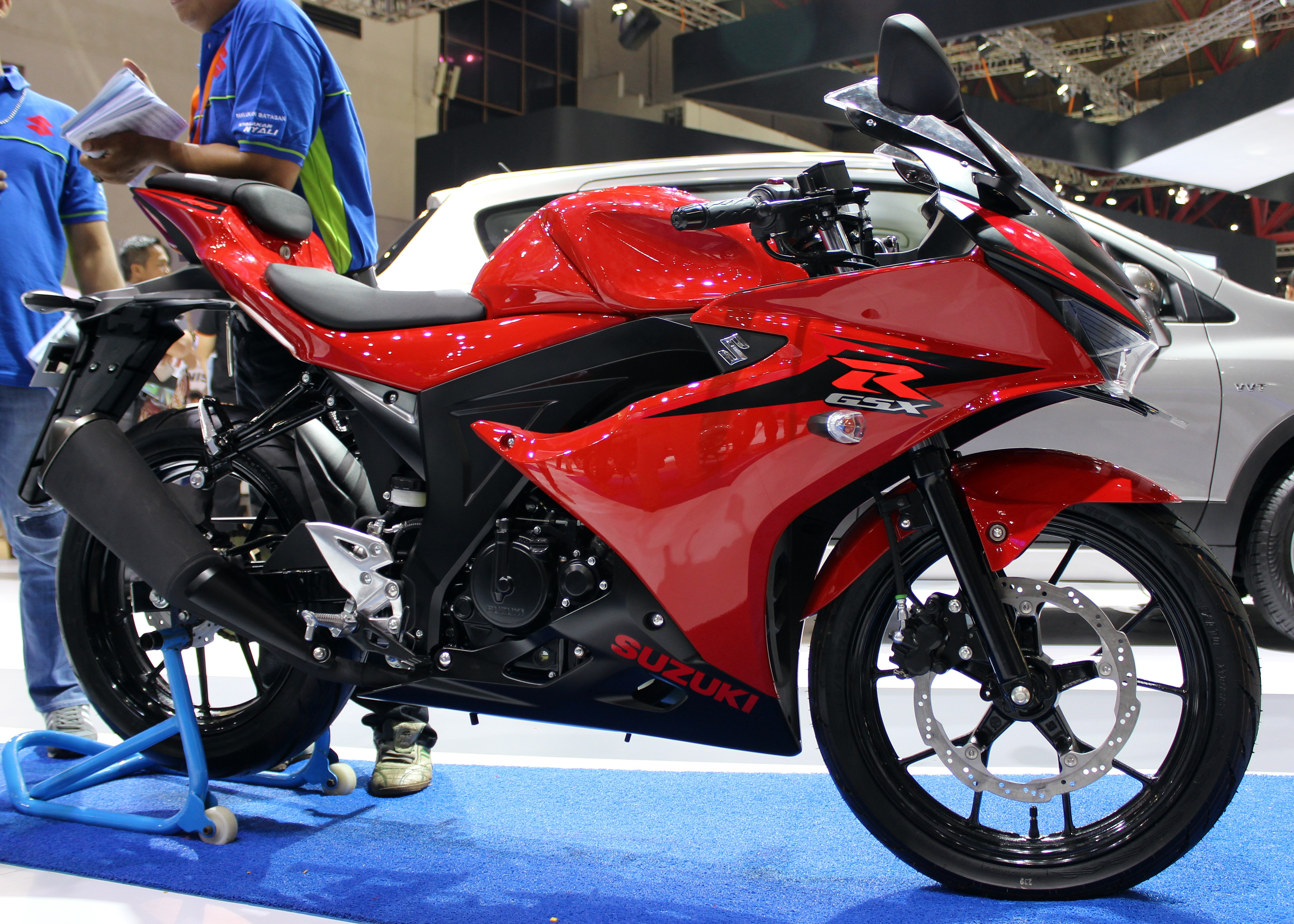 A Suzuki GSX-R150 photographed in Indonesia International Motor Show 2017, Jakarta, Indonesia on April 30, 2017.